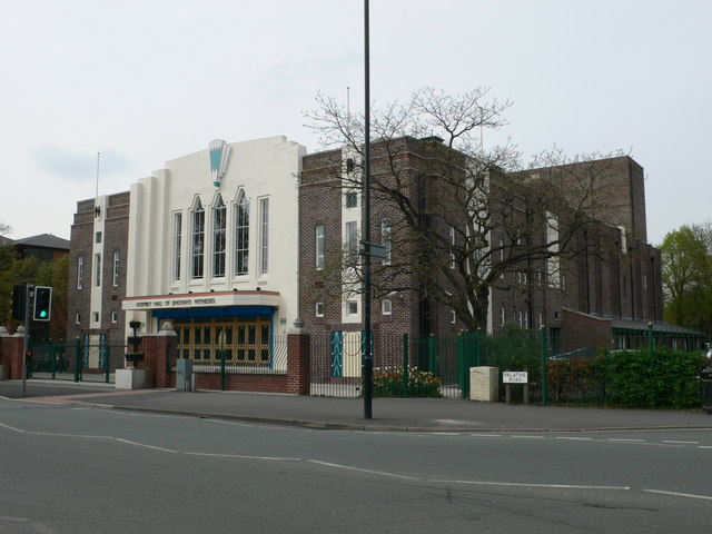 Jehovah's Witness Assembly Hall, Northenden Originally this building was the ABC Forum Cinema on Wythenshawe Road Northenden, and it opened in 1934. It had a Wurlitzer organ and could also put on stage shows. Since 1976 it has become the Assembly Hall for Jehovah's Witnesses.